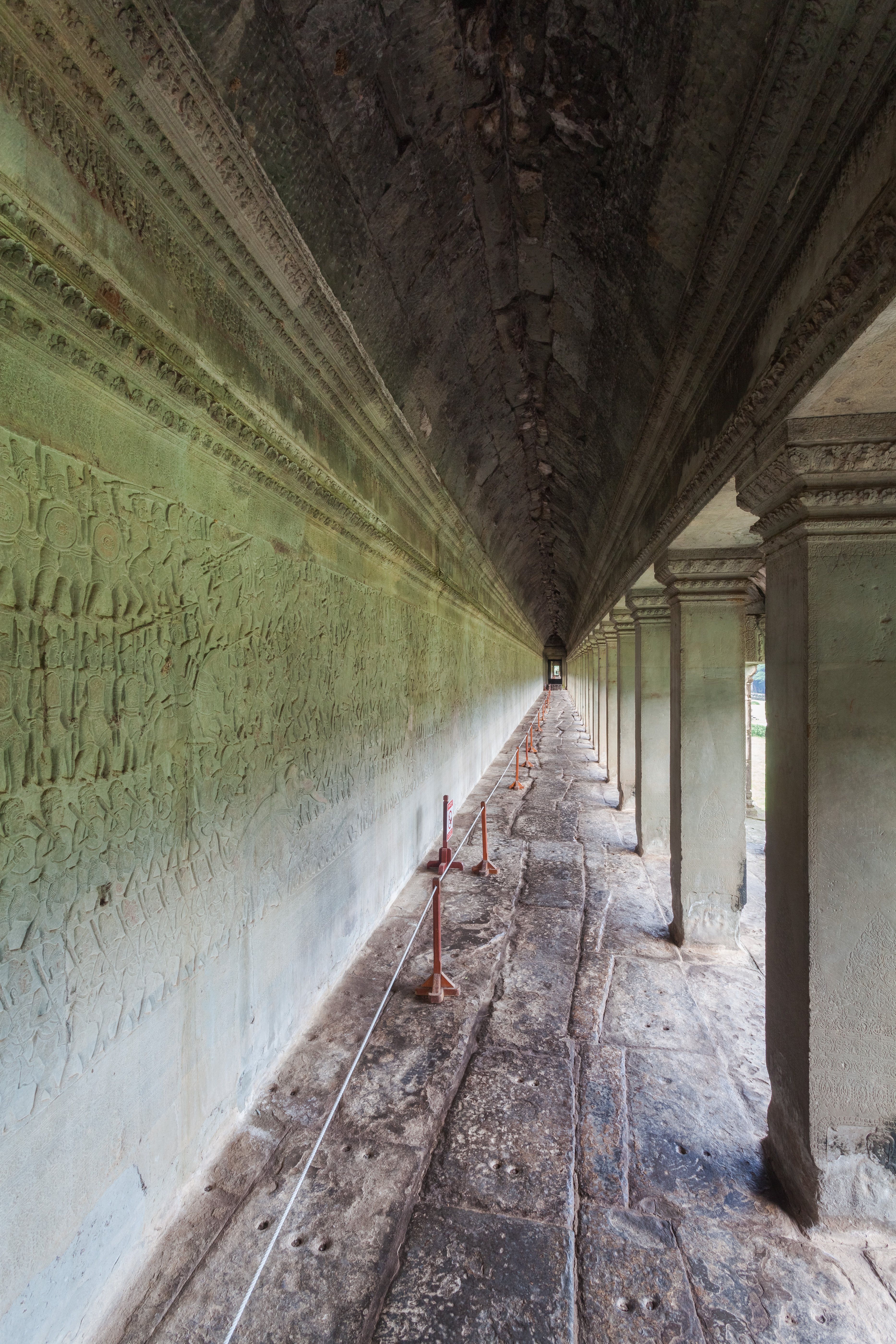 Angkor Wat, Cambodia